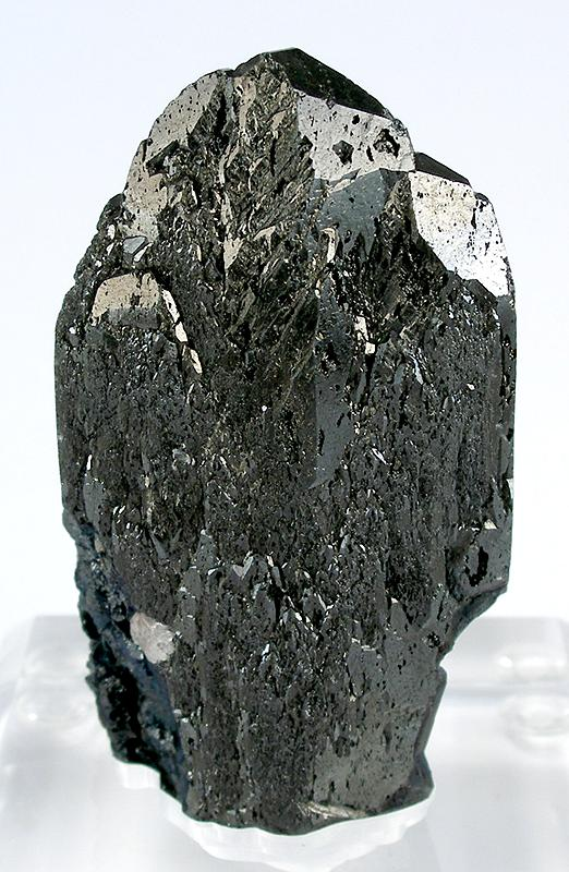 Wodginite Locality: Linópolis, Divino das Laranjeiras, Doce valley, Minas Gerais, Southeast Region, Brazil (Locality at ) Size: small cabinet, 9.4 x 3.6 x 2.6 cm Wodginite (HUGE crystal!) Wodginite is one of the more bizarre and unusual tantalates, and is very rare in large crystals (to my knowledge, known from just a couple of inds in Brazil in high quality). At first glance, this one is so large, lustrous, and sharp, that it could easily be mistaken for a ferberite til you feel the high heft in your hand and wonder. This crystal is complete all around except for a small contact in the lower-left, and displays nicely 360 degrees around as well. It is, I think, one of the more significant Brazilian minerals in terms of species representation, and thus a bargain compared to what you get for the price in "common, pretty" tourmalines from Brazil. To me, rarities of this calibre, when also in good condition and relatively aesthetic, make for the most interesting acquisitions! Comes with custom base.